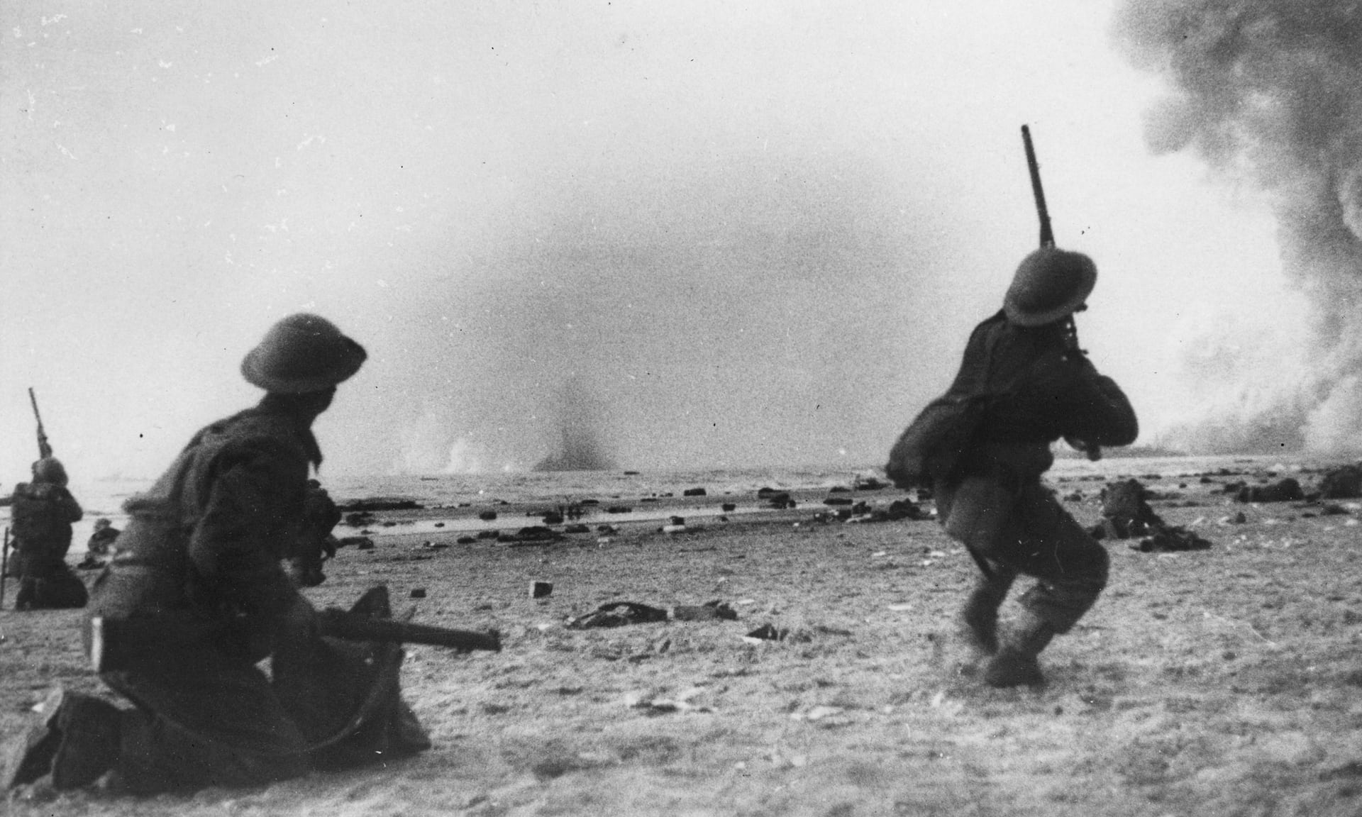 Soldiers from the British Expeditionary Force fire at low flying German aircraft during the Dunkirk evacuation.